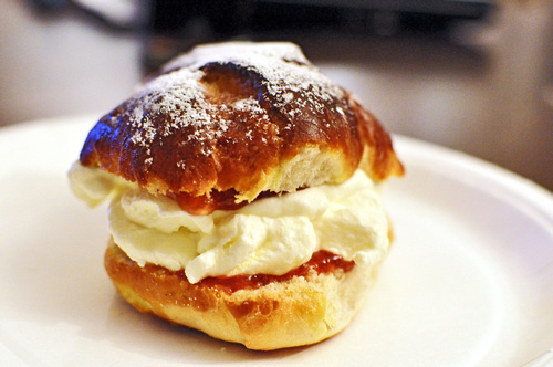 Home made sweet buns filled with jam and whipped cream, and some powdered sugar dusted on top is part of what we here call Fastelaven celebration. It is linked to lent, and you were suppose to fatten up before it.